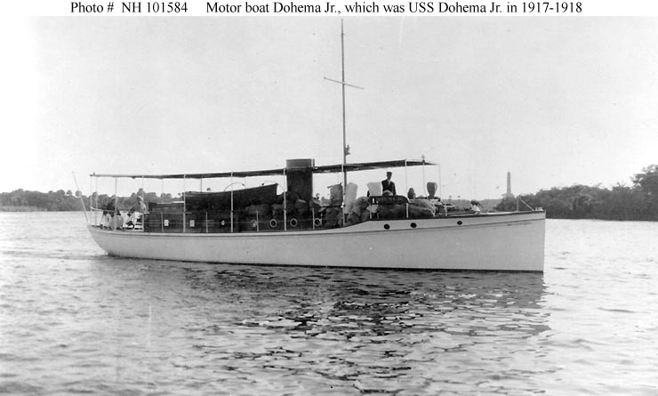 The motorboat Dohema Jr. prior to her United States Navy service as the patrol vessel